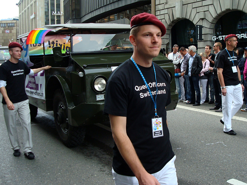 In the army...